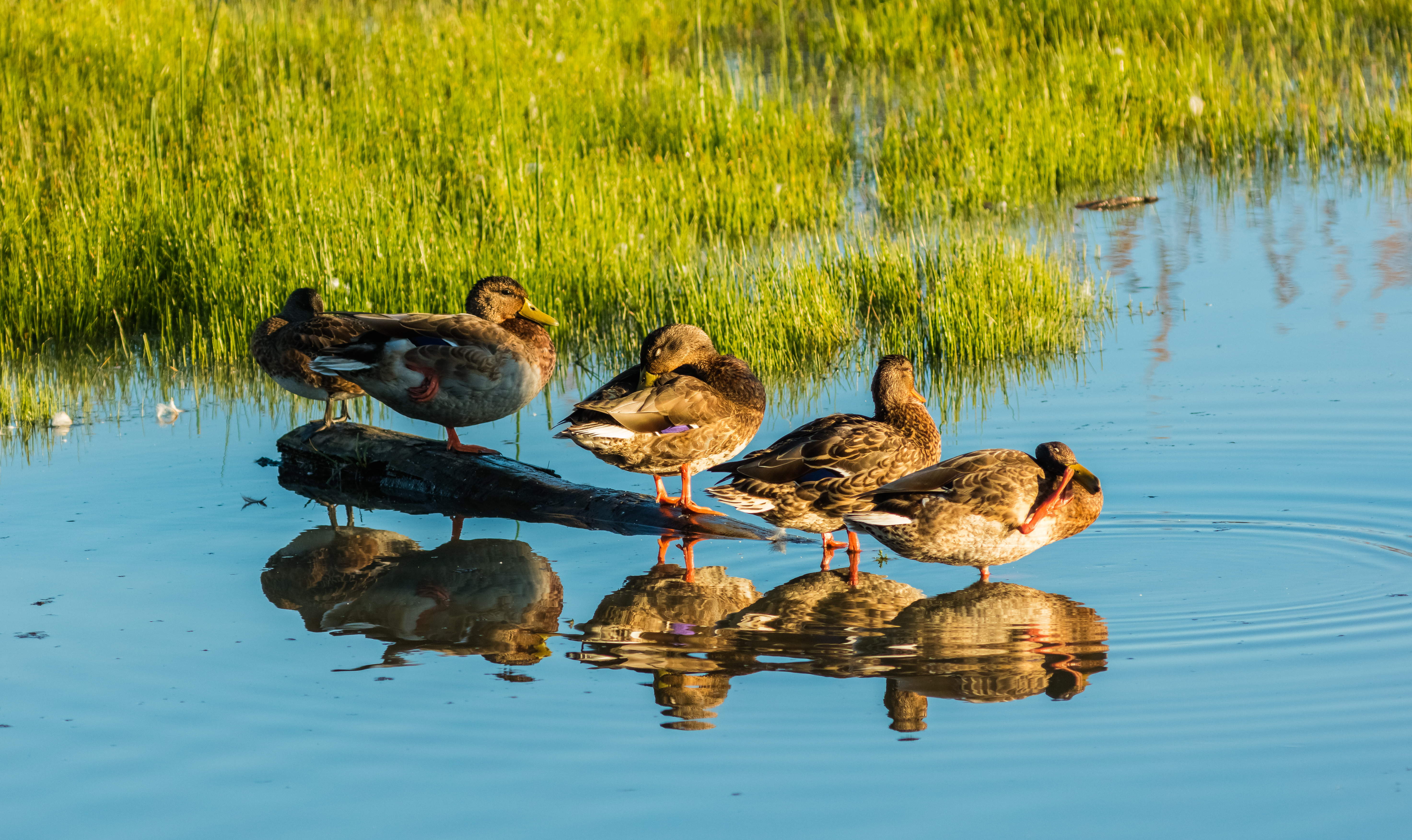 Mallards Anas platyrhynchos, Potter marsh, Alaska, United States